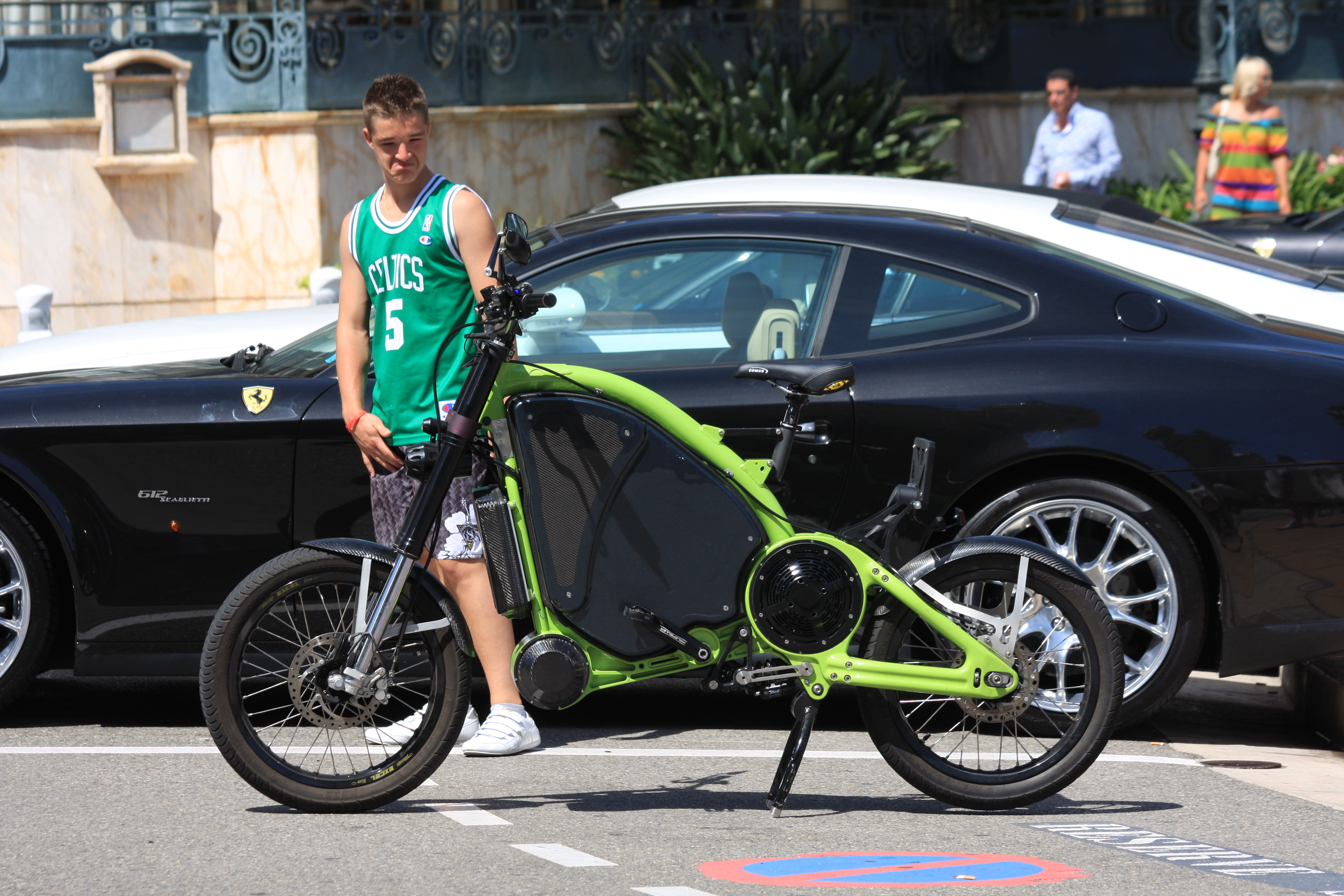 eROCKIT, the first human hybrid Electronic bike.